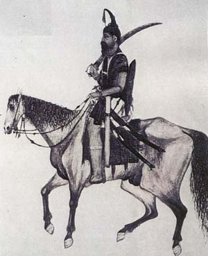 Sikh cavalryman from Ranjit Singh's era